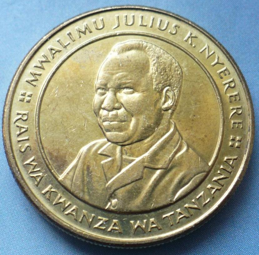 Tanzania 100 shillings